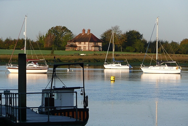 Peaceful morning at Dell Quay Yachts at their channel moorings facing the incoming tide.